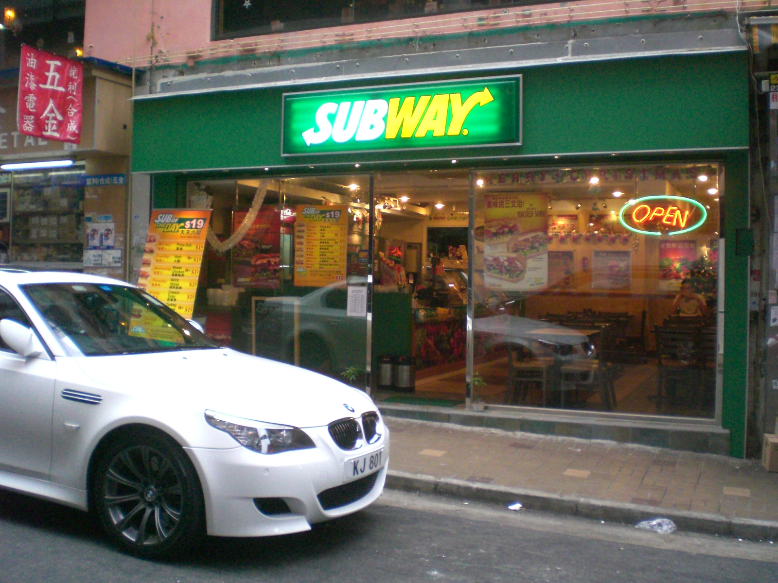 尖沙咀zh:亞士厘道en:Subway (restaurant)